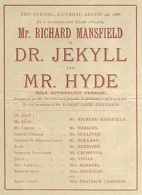 Playbill for August 1888 production of Dr. Jekyll and Mr. Hyde at the Lyceum Theatre in London, starring Richard Mansfield.